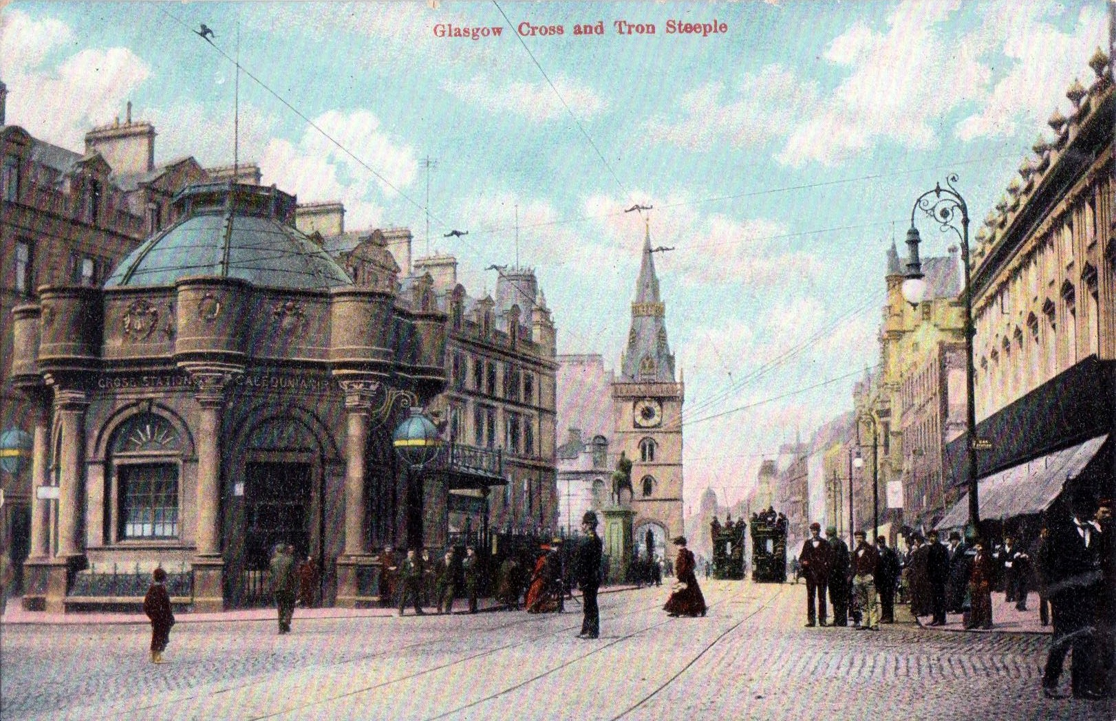 Glasgow. Glasgow Cross. Postcard, c. 1910. Publisher: F. Bauermeister. Glasgow. The Tron Steeple can be seen in the distance and to the left is Glasgow Cross Station.